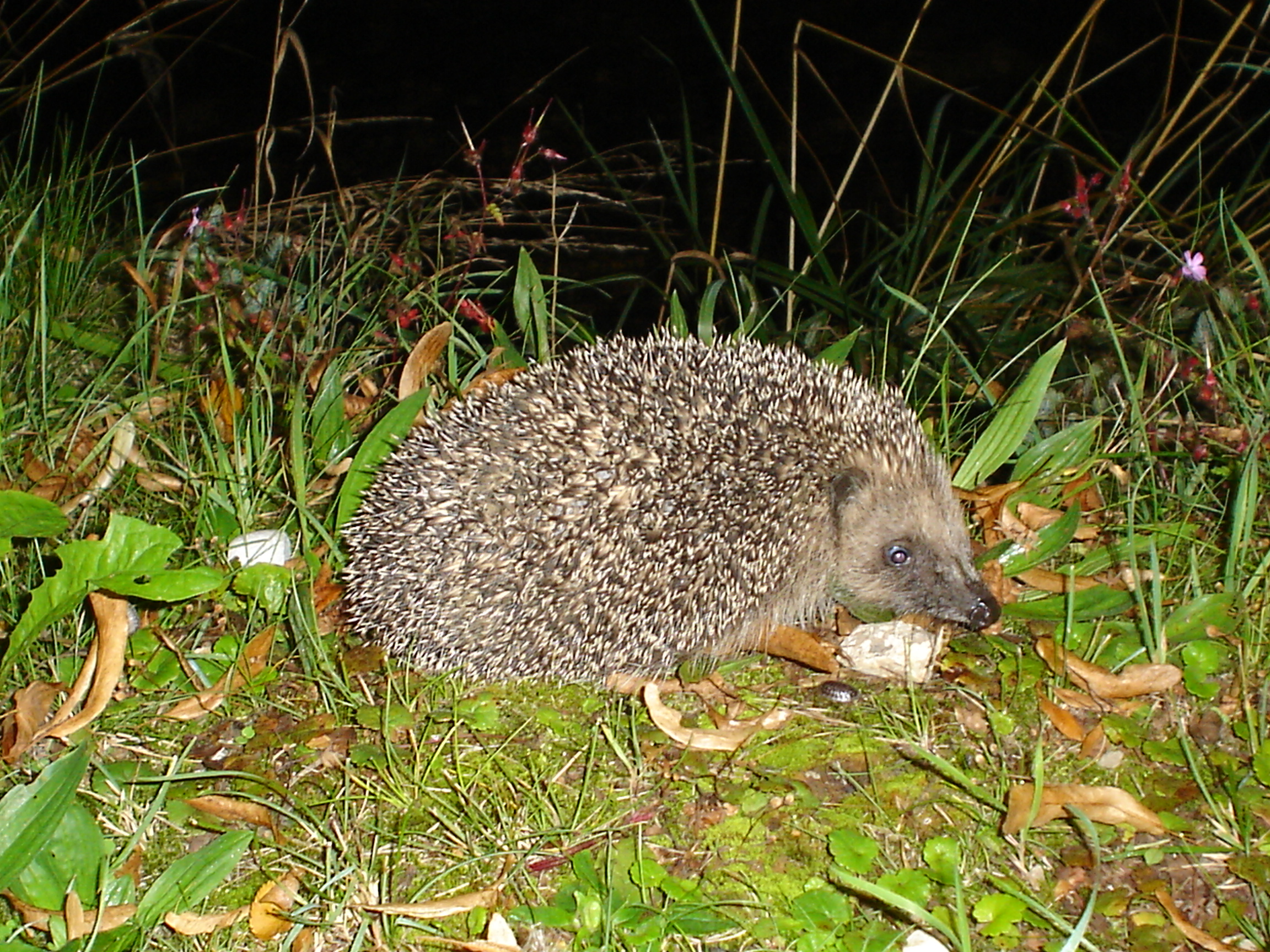 A picture of an Erinaceus europaeus took on the south riverside of the Birse in Bévilard (CH) Photographed by Andrea Blankenstijn the 2005-09-03